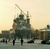 Belarus, Svetlogorsk, othodox cathedral